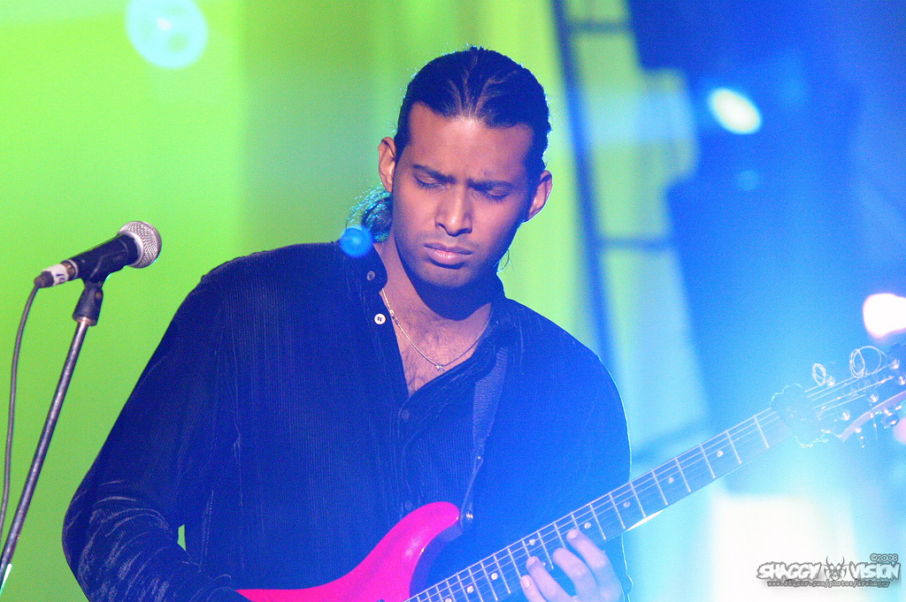 Shallum Xavier (from Fuzon)